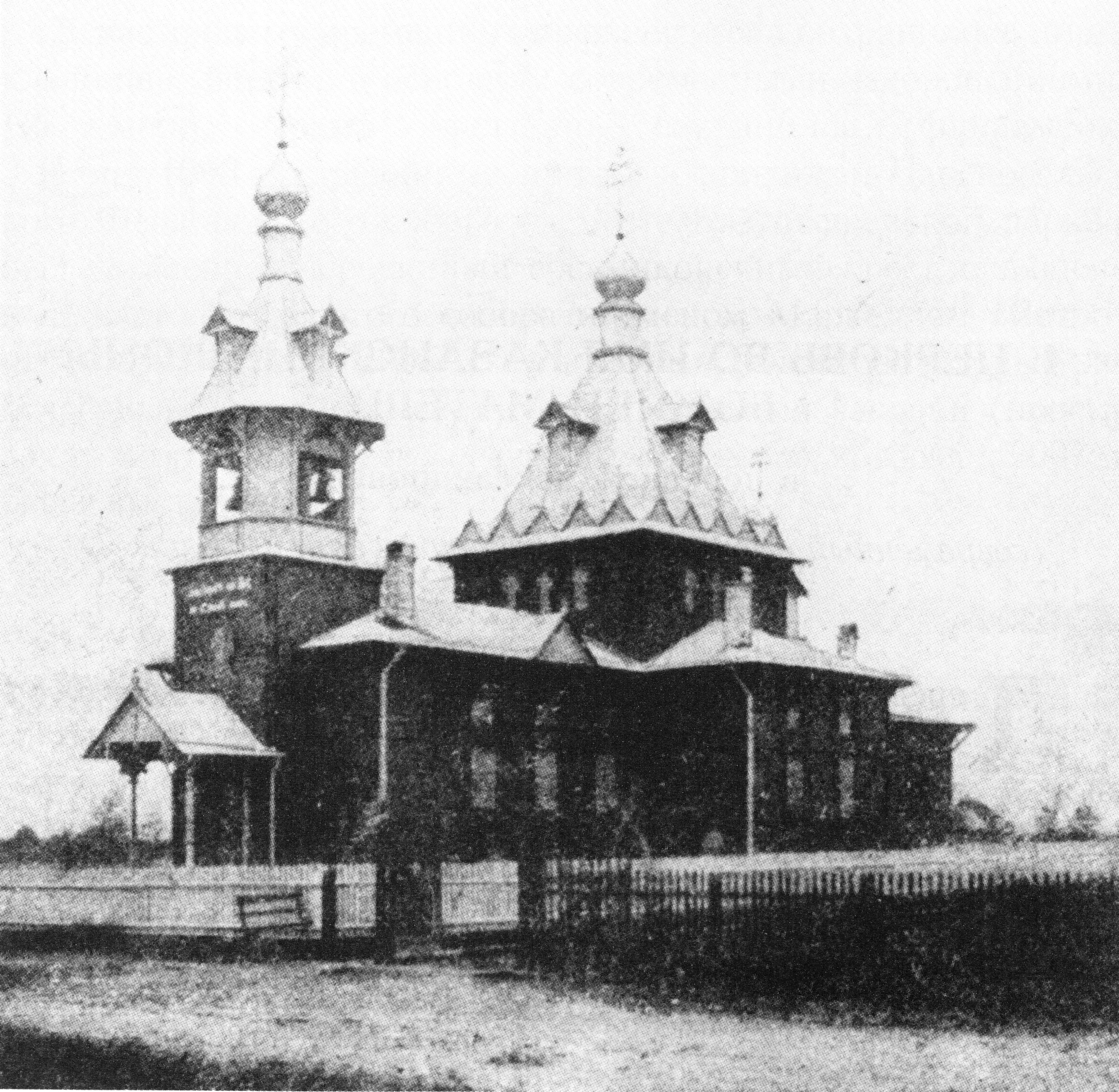 Church of icon of Our Lady Kazanskaya in Aleksandrovskaya